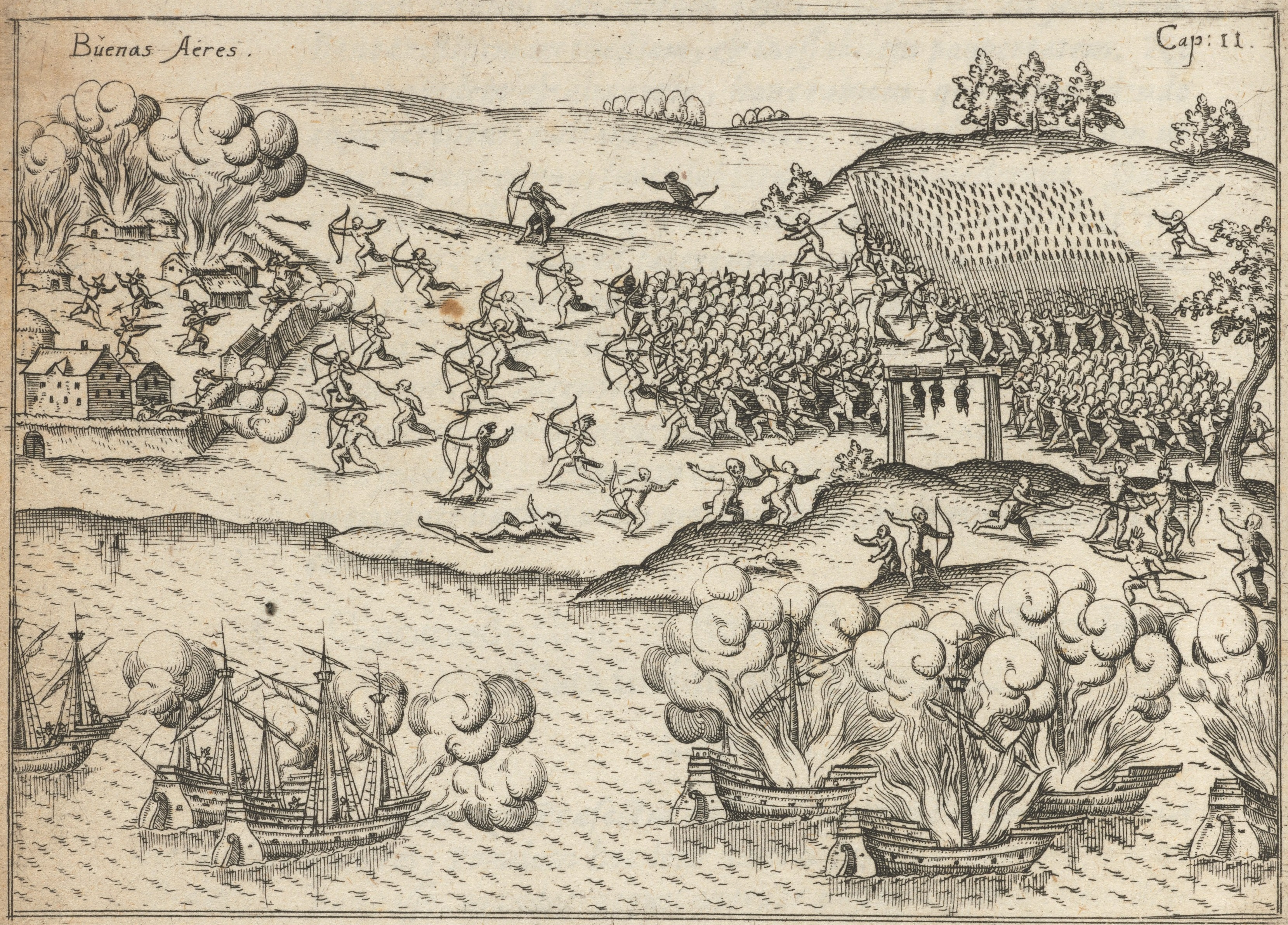 Illustration: "Buenas Aeres" from Vera historia, 1599, by Ulrich Schmidel (1510?-1579?). US 2257.154*, Houghton Library, Harvard University